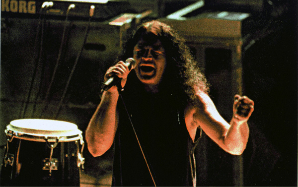 Ian Gillan sings in the Opinion, in Porto Alegre in 1997